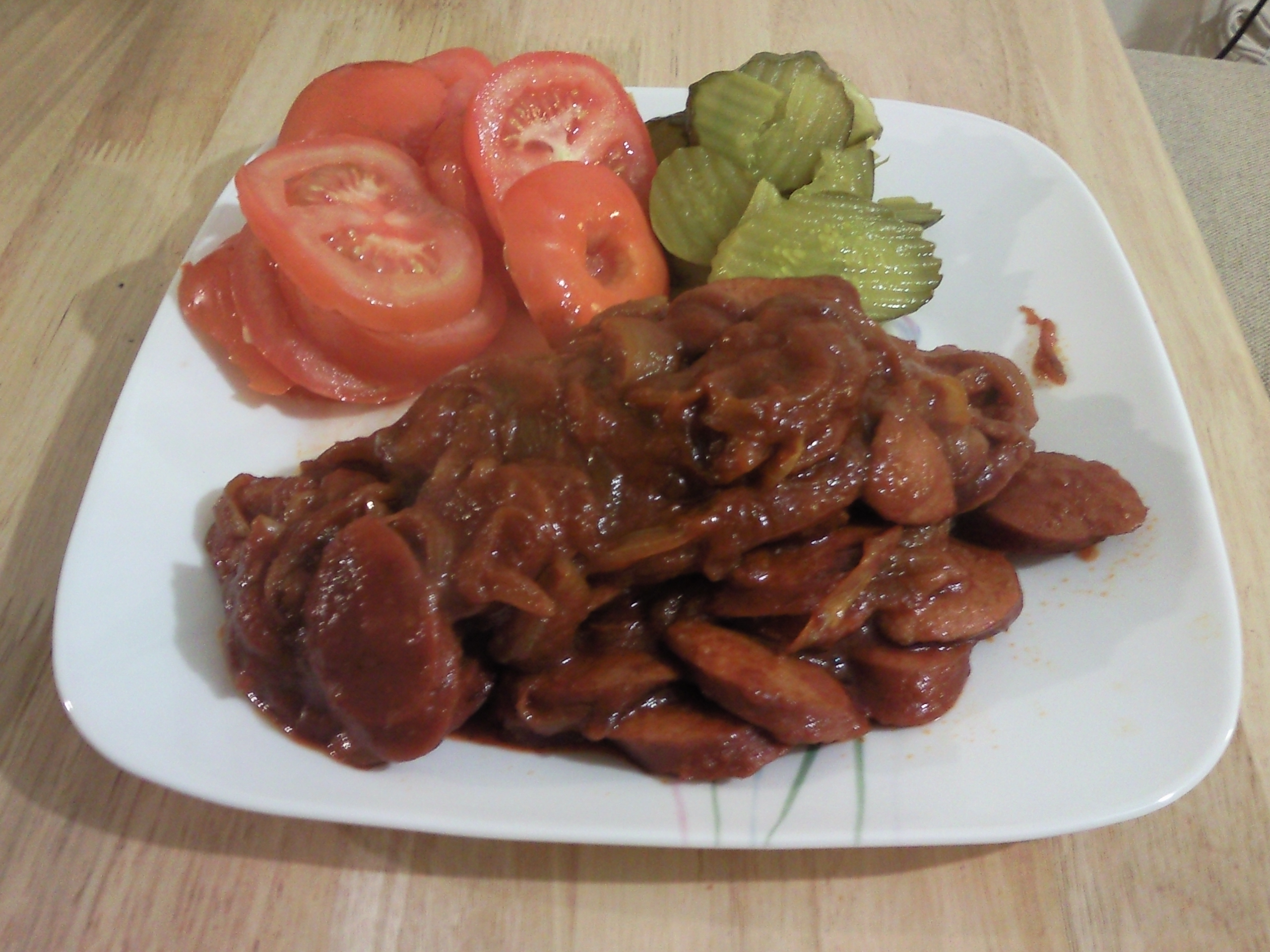 This is a picture from a Persian sausage dish called Port Sausage or Sosis Bandari, made at home, with sliced tomatoes and kosher dills as sides.